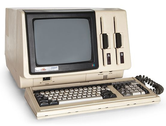 NEC Advanced Personal Computer. Part of the collection at the University of South Australia.